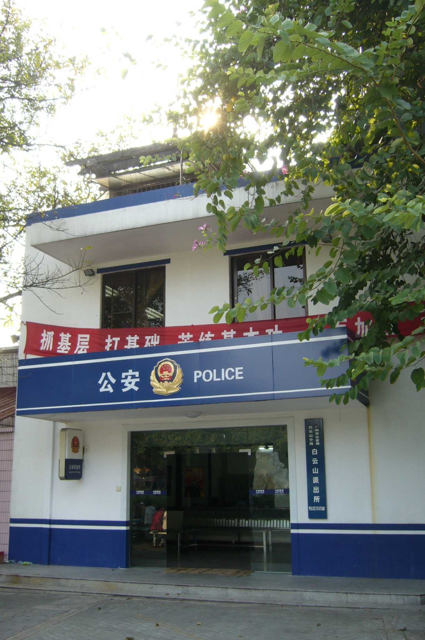 A Police Station in Guangzhou,PRC.